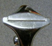 Another photo of the 9in Burdizzo in the closed position, notice that there are no gaps when in the closed position. This is what a working burdizzo should look like. If there are gaps present while the burdizzo is closed it will increase the chance that the castration will not be complete. The blood vessel will slip into the gap and will not be crushed. Thus the person or animal will not be castrated and will still be potent for breeding.